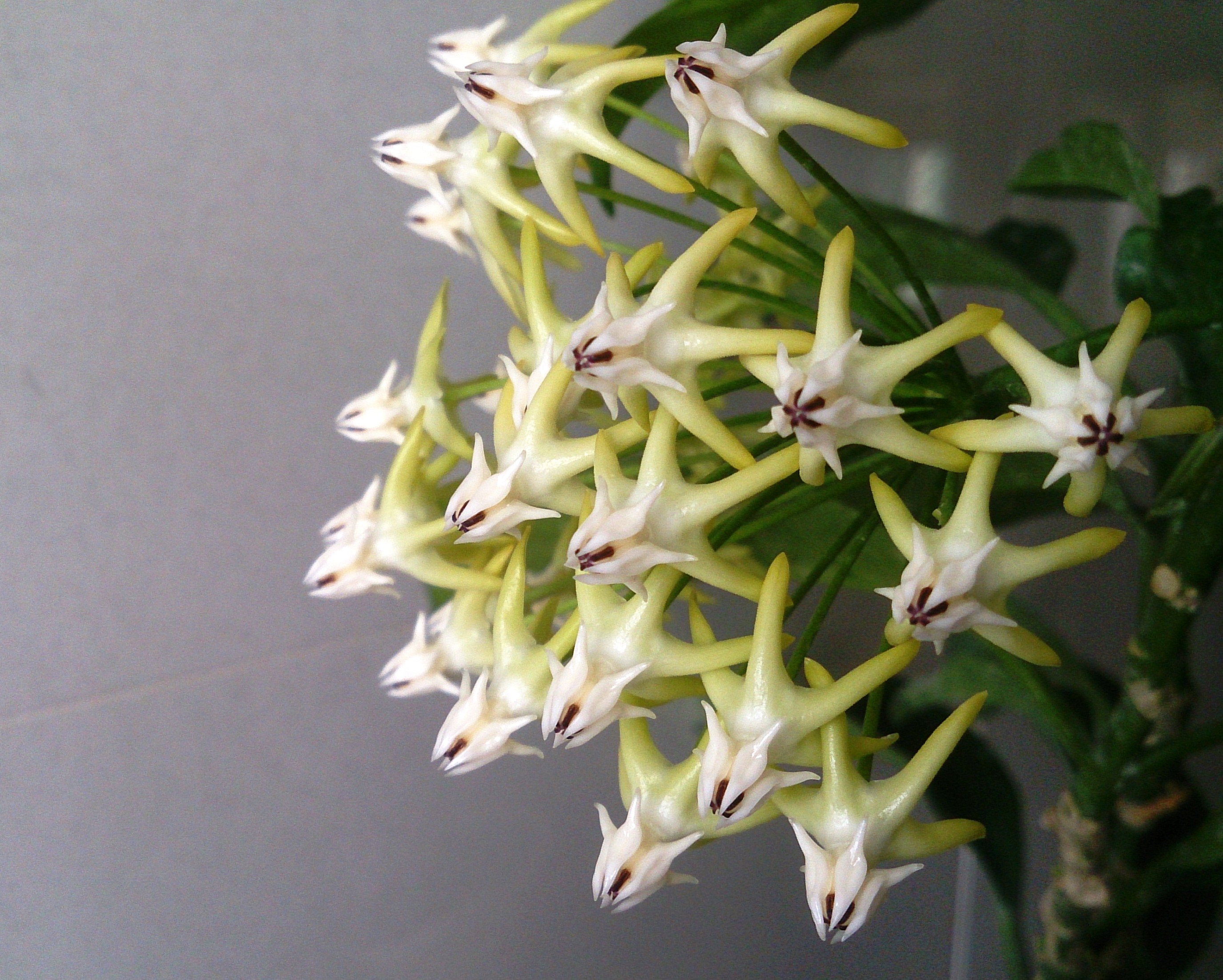 Hoya multiflora. Common names: Shooting Stars Hoya, Wax Plant, Porcelain Flower.